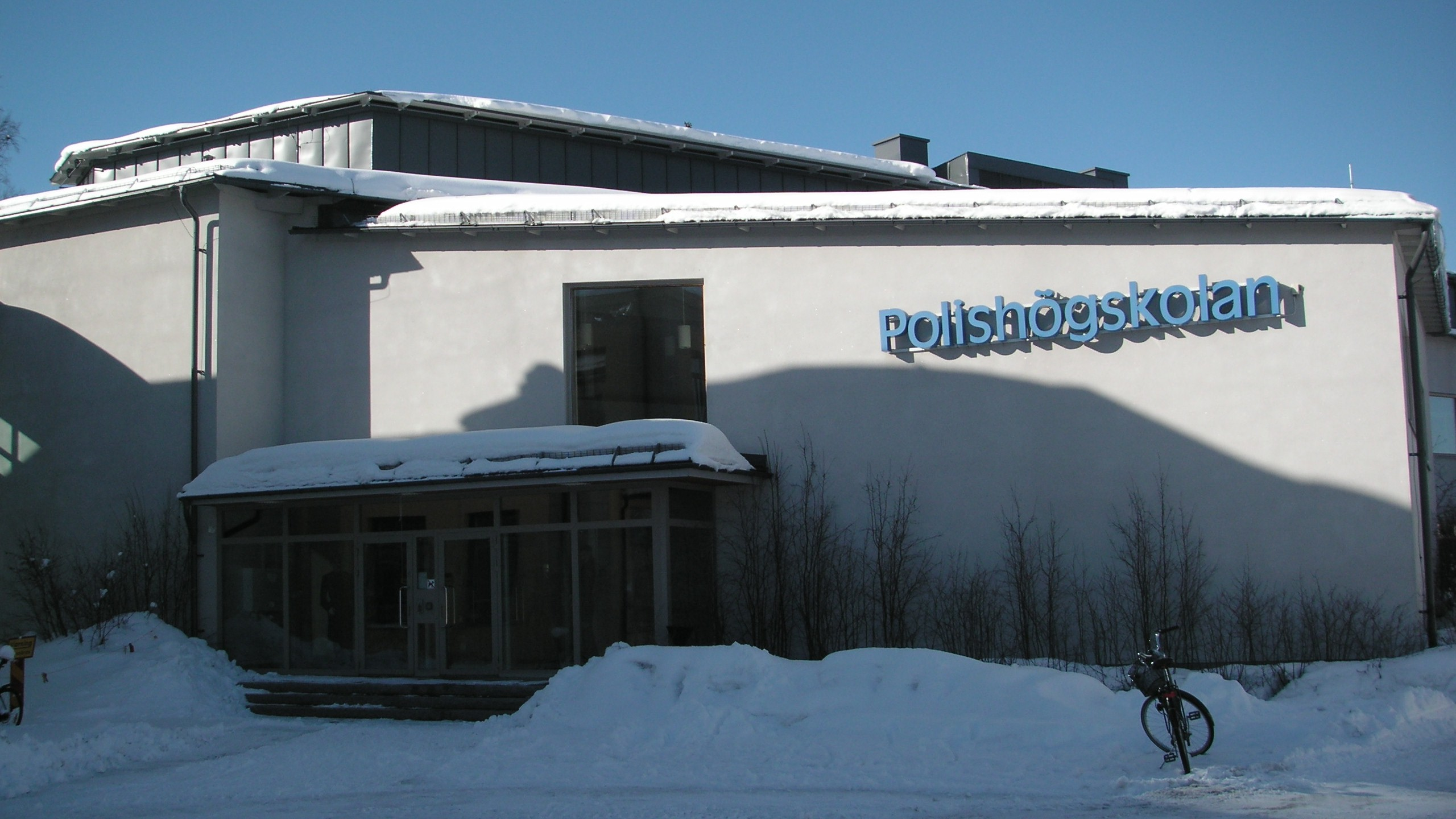 Police Academy, Umeå, Sweden.